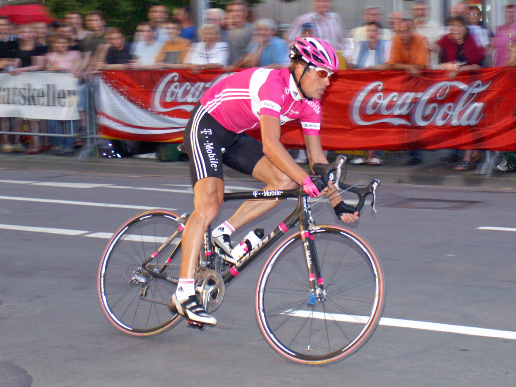 Jan Ullrich (Team T-Mobile) during the 2005 Nacht von Hannover («Night of Hanover», Germany)